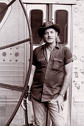 Photograph of completely unhinged psychobilly singer / songwriter Hasil Adkins. Author / Photographer: myself, Beth Herzhaft. Taken on his compound of trailers in the hollers of West Virginia in 1993.